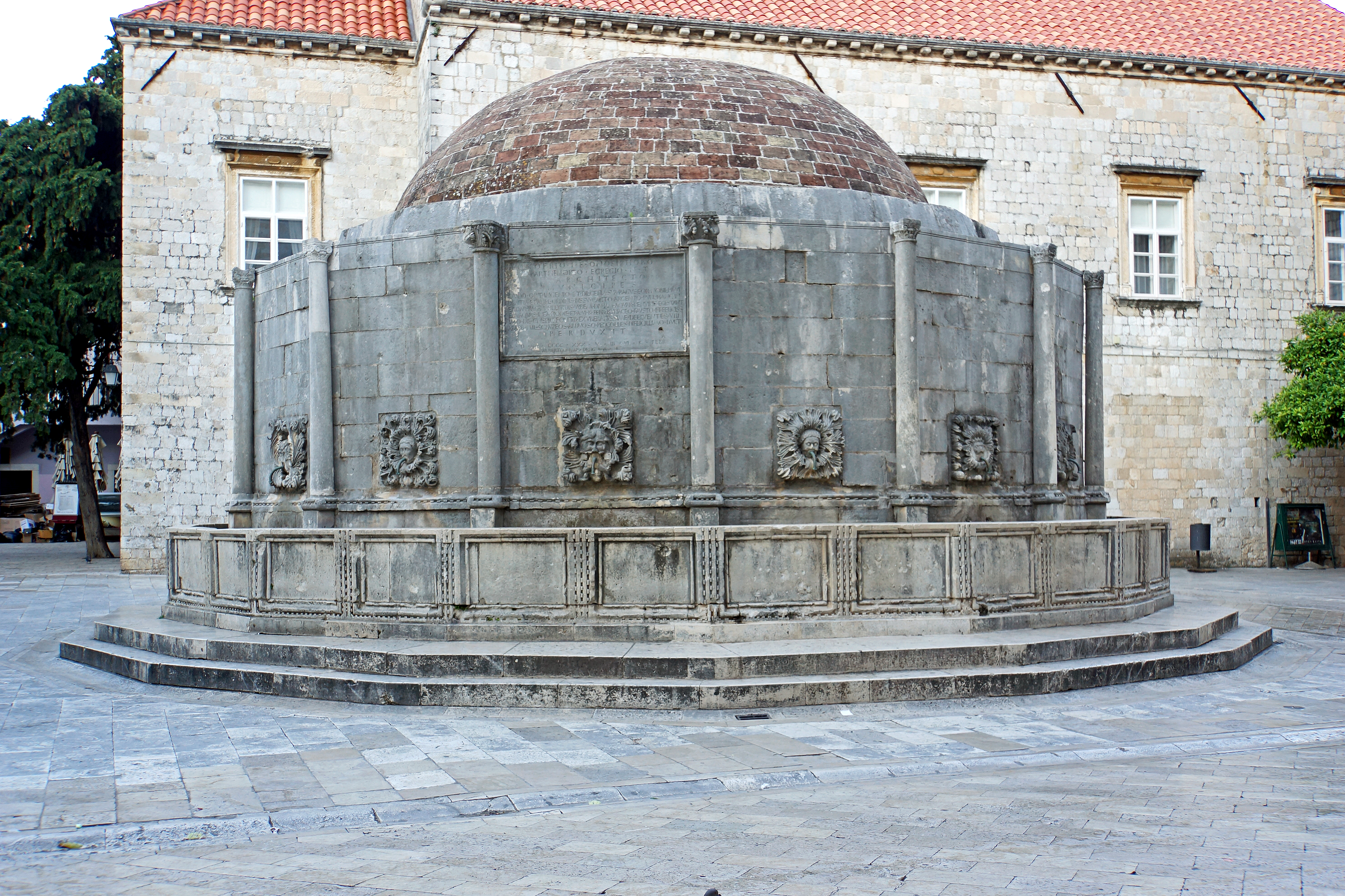 PLEASE,invitations or self promotion in your comments, THEY WILL BE DELETED. My photos are FREE for anyone to use, just give me credit and it would be nice if you let me know, thanks - NONE OF MY PICTURES ARE HDR. Built from 1438 to 1440, the Big Onofrio's Fountain is a sixteen-sided container with a cupola, and was one of the ending points of the aqueduct system. Each of the sixteen sides has a unique stone-carved masked face with the faucet projecting out of the mouth. The fountain's cupola was made by Petar Martinov from Milan. However, the fountain was also partly damaged by the earthquake in 1667 hence the current look is missing a dragon statue that had once been on top of the cupola.